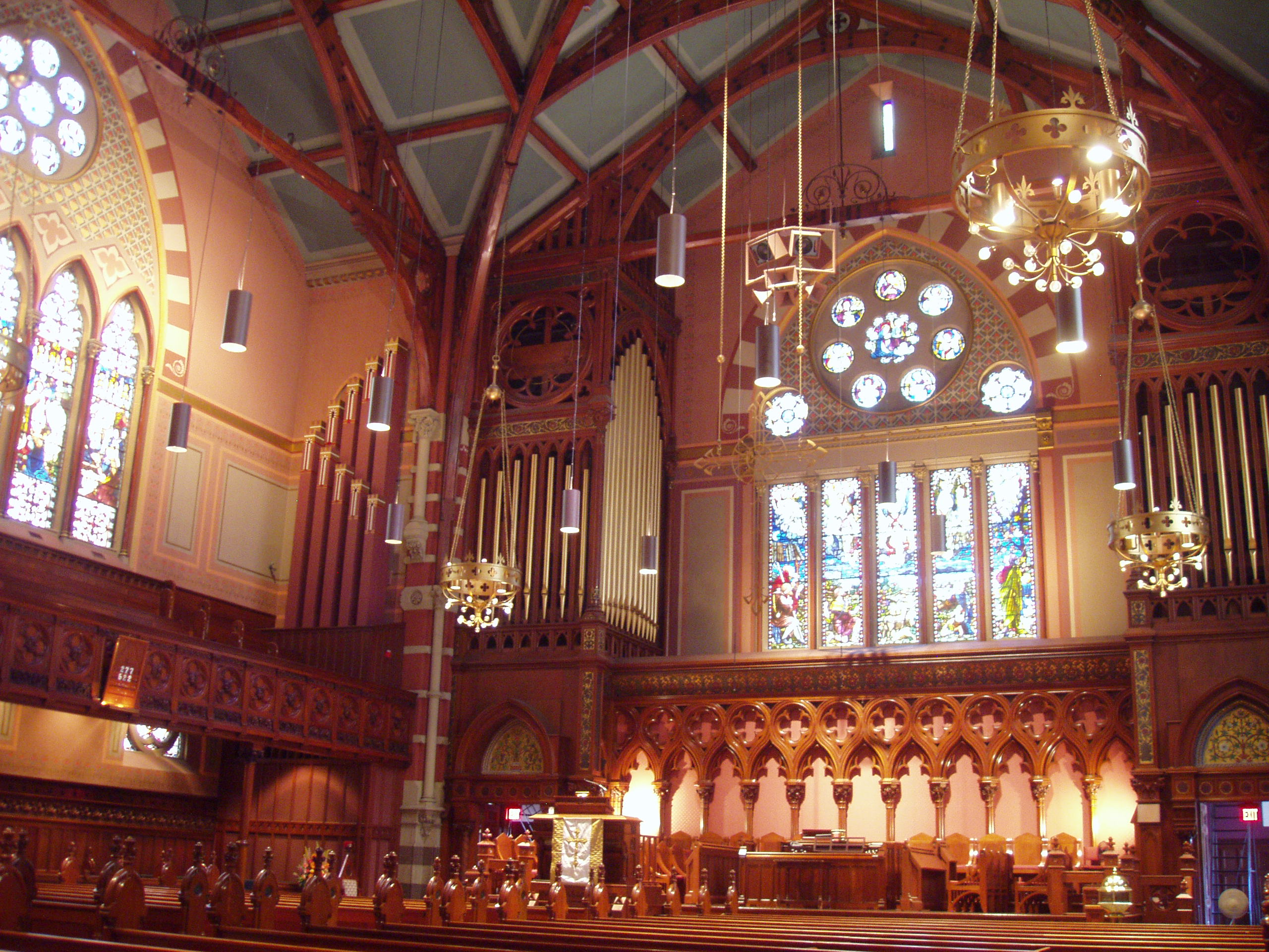 Interior of the "New" Old South Church at Copley Square, Boston, Massachusetts. Photograph taken by me, July 2005.